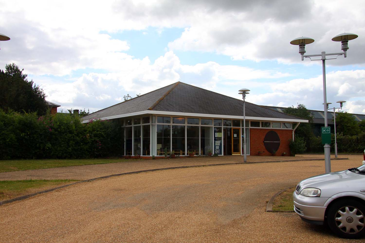 Milton Keynes Museum entrance and shop